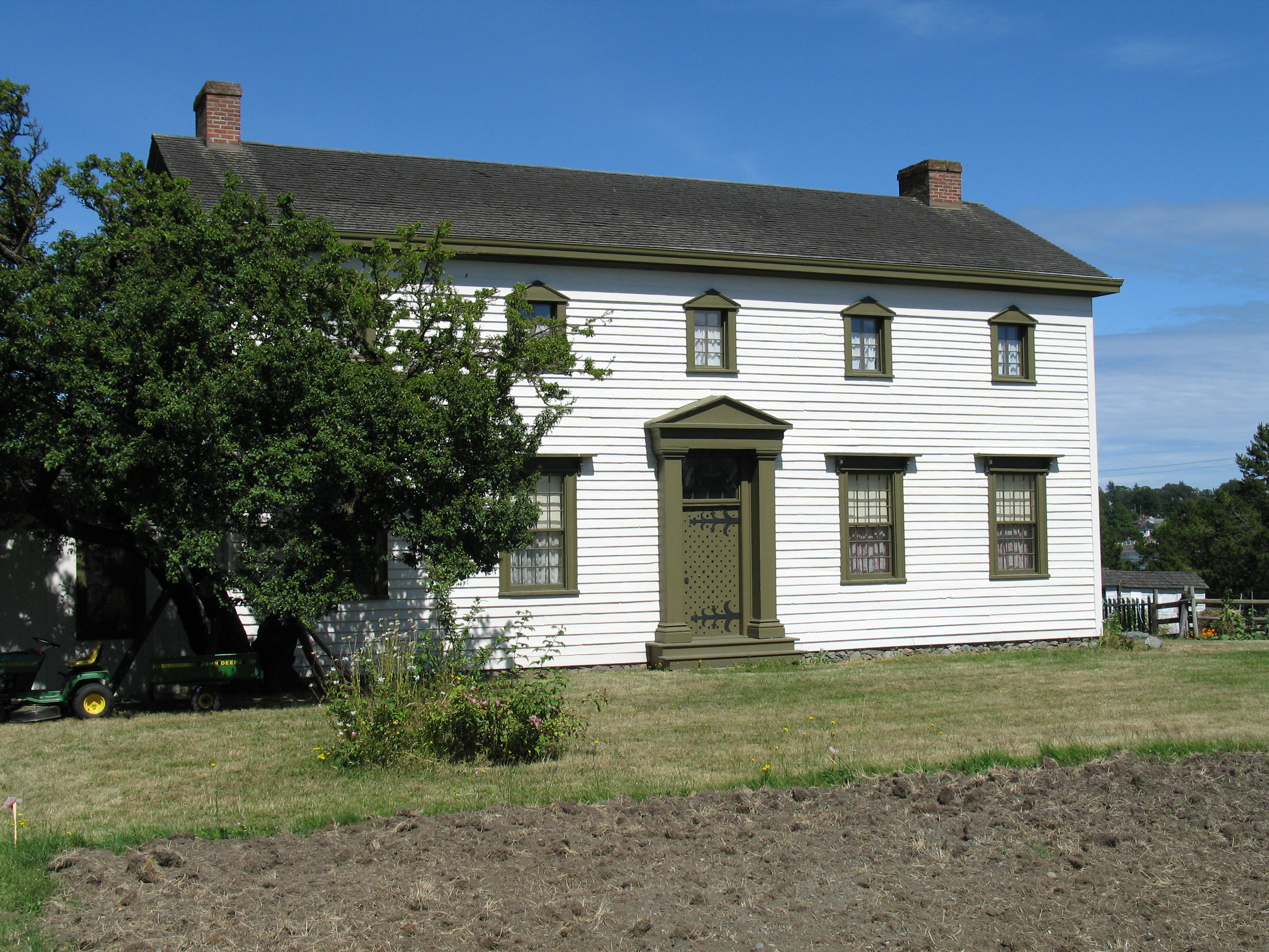 A view of Craigflower manor, from the front